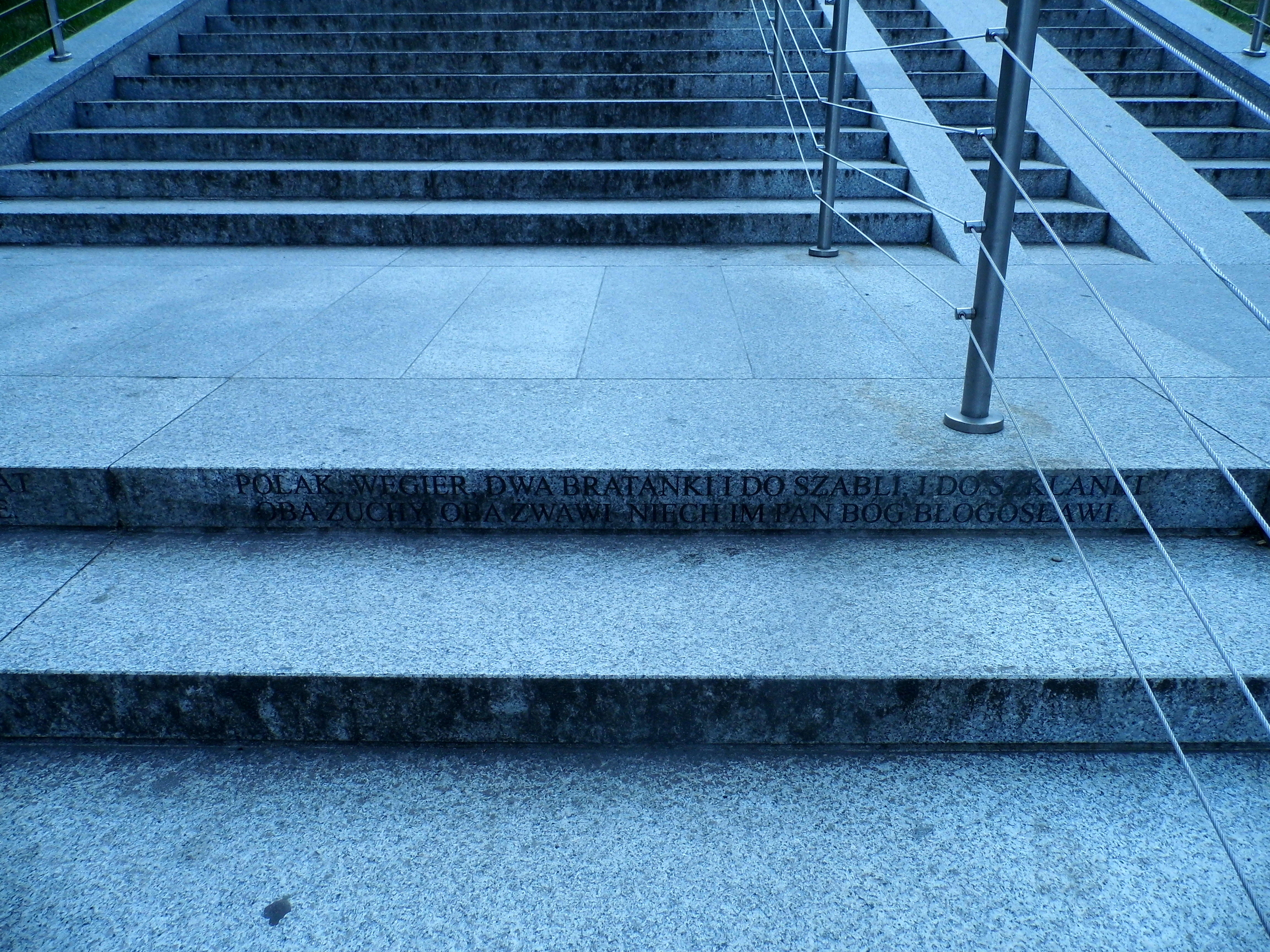 Monument of Polish Hungarian friendship, upper stairs in Foglár György Street, Eger, Hungary